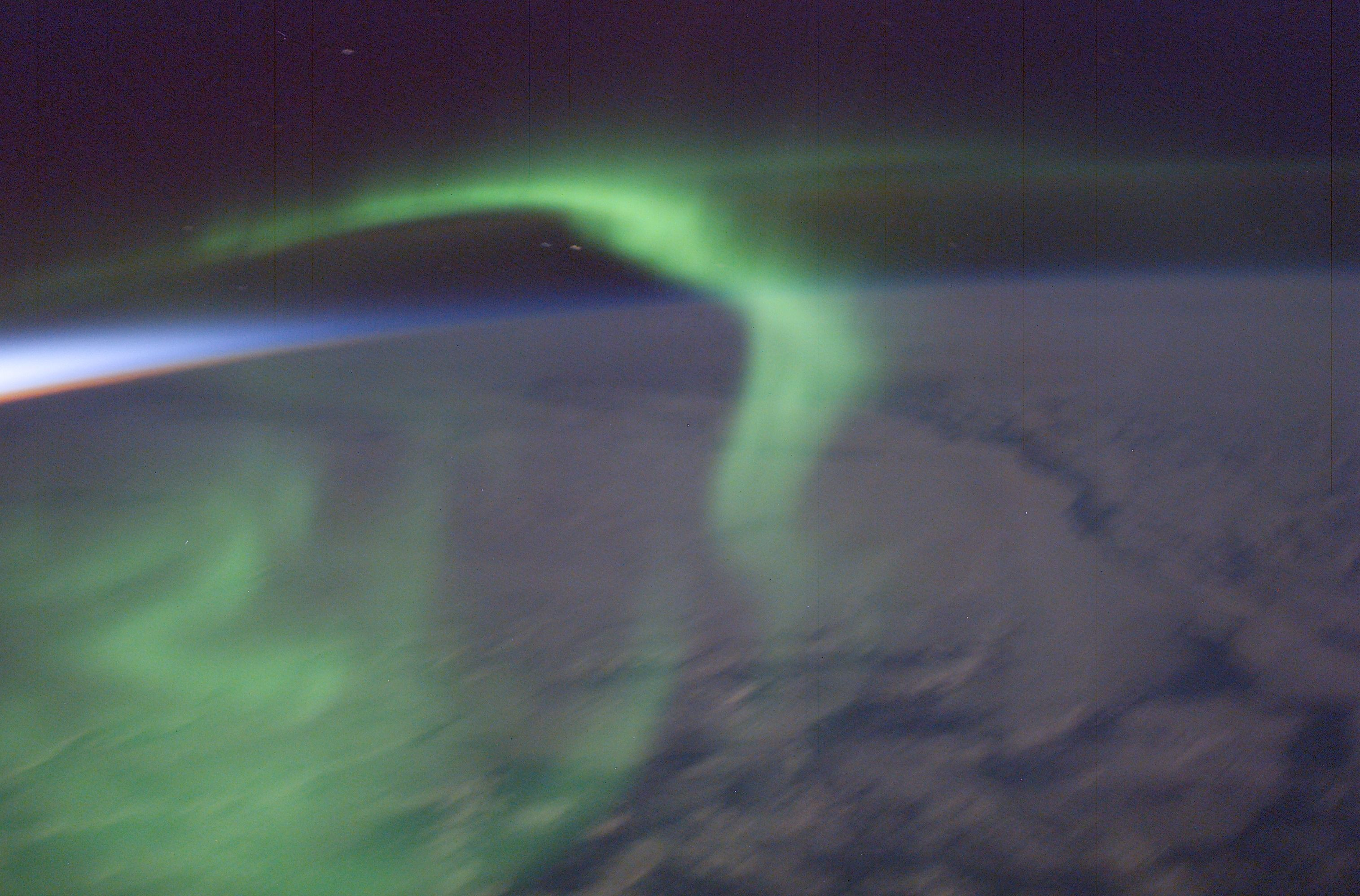 ISS006-E-28961 - Aurora Australis. The ISS-6 crew enjoyed this green aurora dancing over the night side of the Earth just after sunset. The reds and blues of sunset light up the air layer to the west. This image was taken February 16, 2003, with a 58 mm lens.